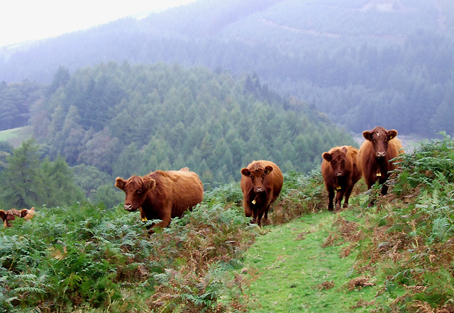 Cattle near Nant-y-Brain, Powys These beauties were very interested in my presence. The view is towards and across Cwm Irfon. The very low afternoon cloud and mist soon dissipated and the sun came out. The bridleway marked does not come from the western end of the farm. A barbed wire fence blocks that route. Although no indication is given at the farm gate, the bridleway goes into the field alongside the road for hundred metres south-east to another gate which does have a sign on it. A forum discussion seems to point to these (probably) being Luings.